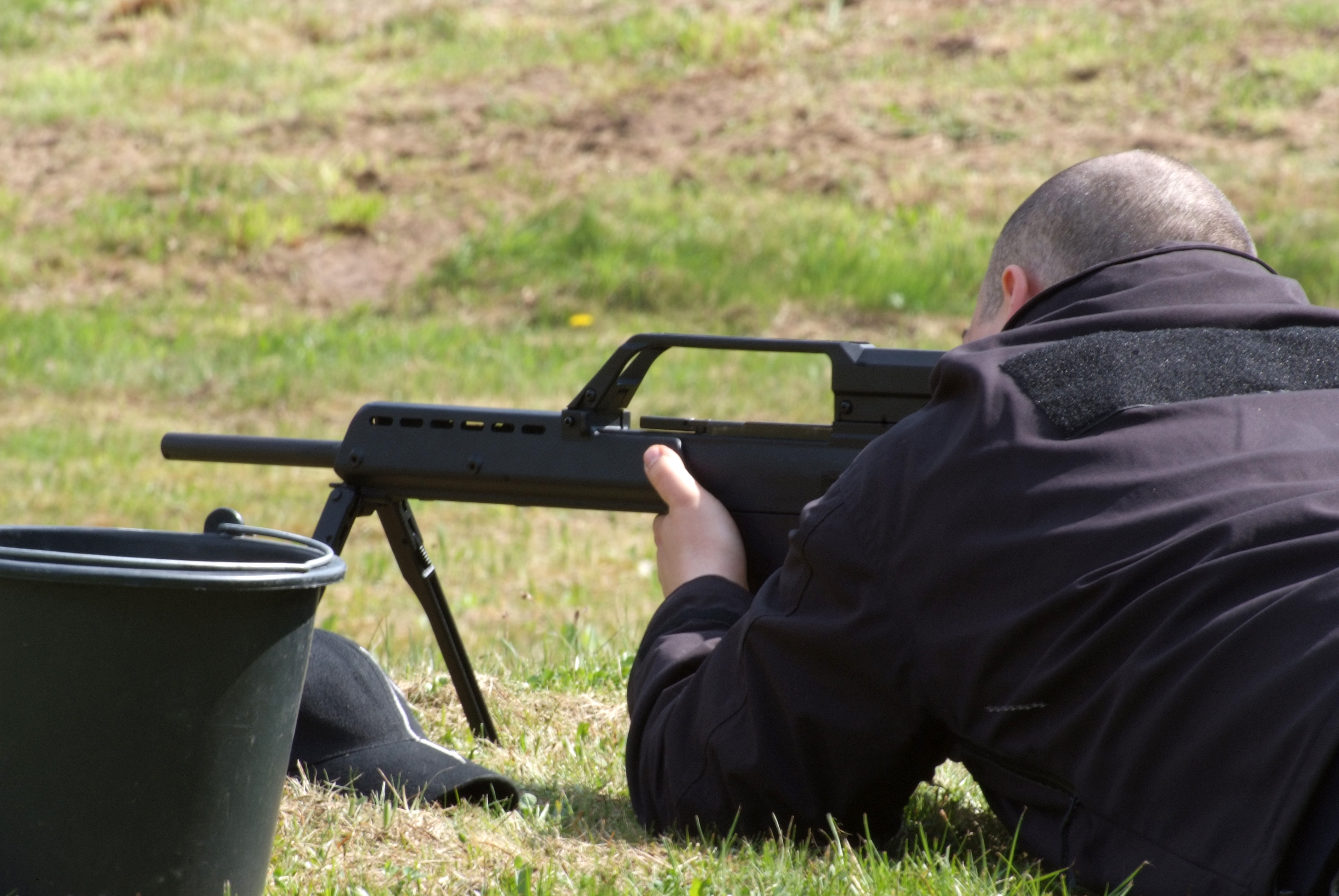 A German policeman fires a Heckler & Koch G36 automatic weapon on a 300-meter range rifle during the 25th Annual International Monte Kali Shooting Competition, sponsored by 208th Finance Battalion in cooperation with Reservisten Kommando Giesel, at the Messel Range in Messel, Germany, April 25, 2008. Proceeds from the international charitable event were donated to the Fisher House Project and Action Cash, a Bundeswehr Charity that supports orphanages. Personnel from 13 nations conducted 7,577 firing iterations and expended 176,302 rounds during the two-day event.